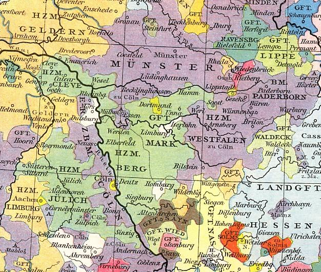 Map of the united duchies of Jülich-Kleve-Berg; from: Droysens Historischer Handatlas; Illustrator: G. Droysen, Th. Lindner; date: 1886